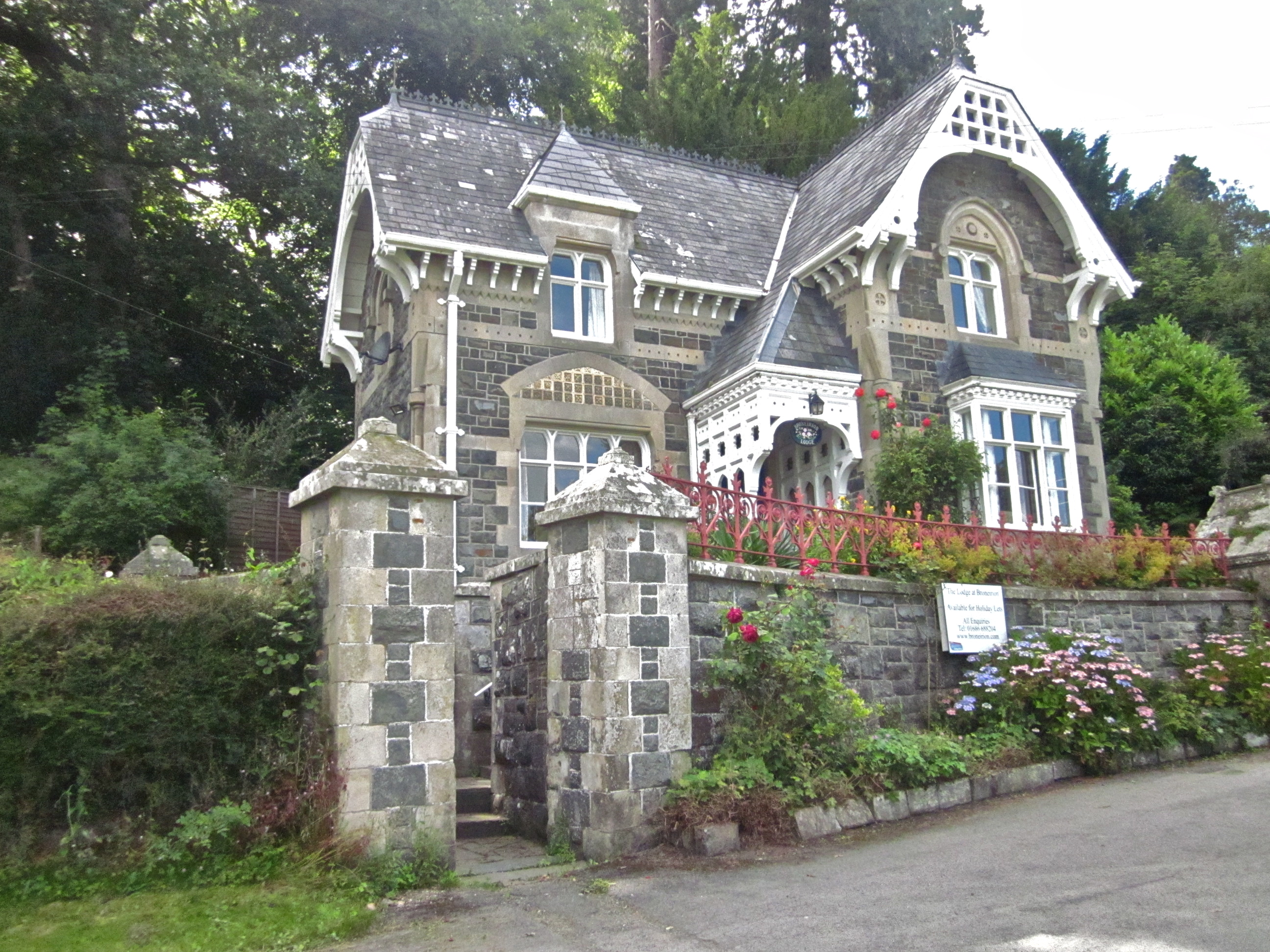 The Lodge Cottage just below Broneirion